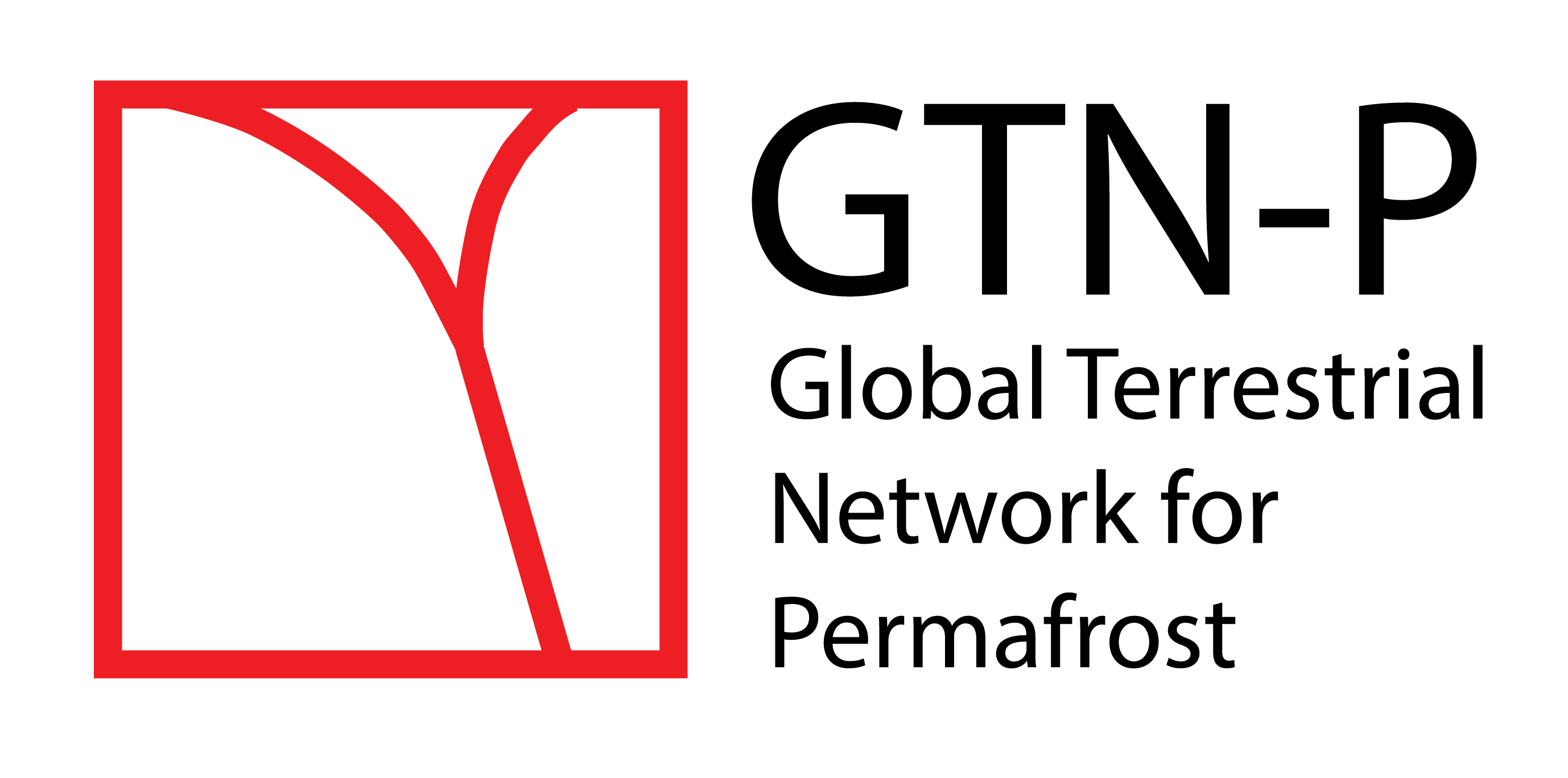 GTN-P Logo